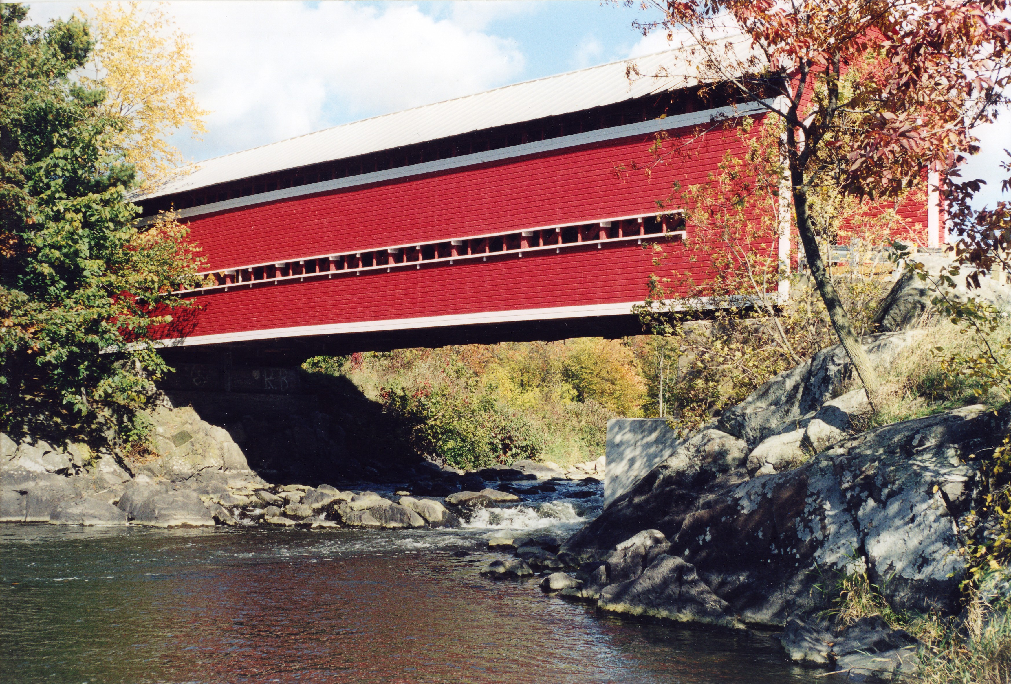 Pont Balthazar, Pont couvert situé à Brigham, Québec, Canada